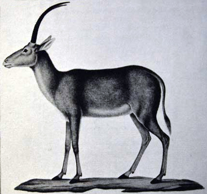 This drawing by the French explorer Le Vaillant was in Cape Town in 1967 according to Mohr. It is believed to have been of a buck shot in the Valley of Soete Melk, and to be the specimen now held by the Natural History Museum in Paris.